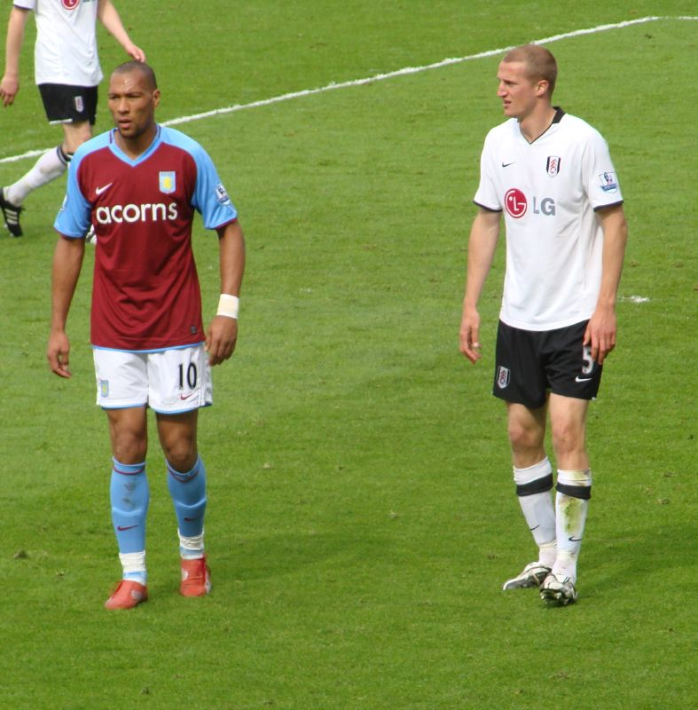 John Carew (left) and Brede Hangeland (right)